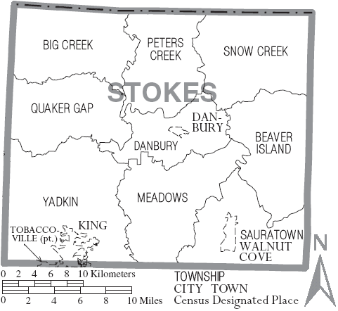 Map of Stokes County, North Carolina, United States with township and municipal boundaries